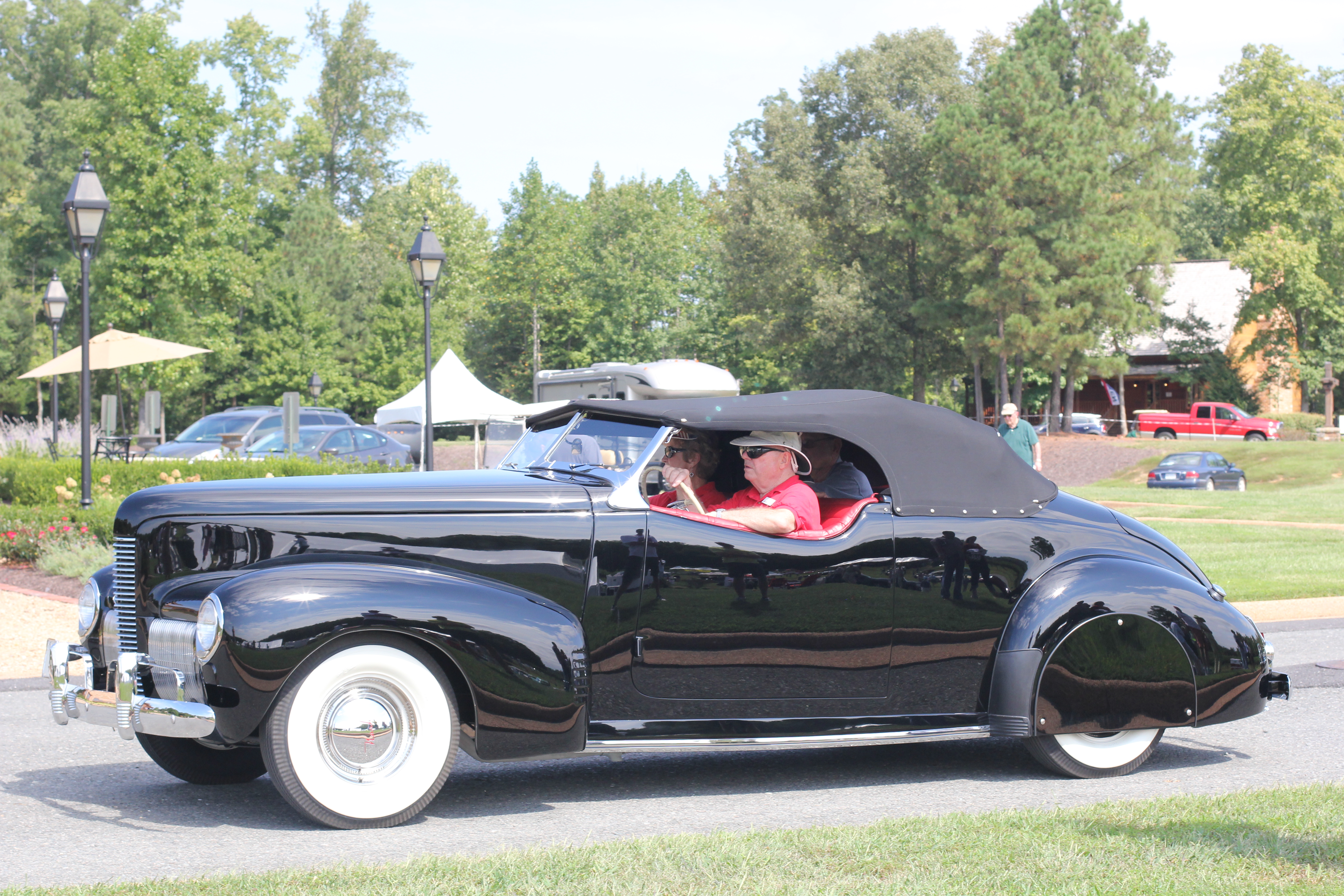 1940 Nash Ambassador Eight Special cabriolet Classics on the Green, New Kent Virginia, USA. 20 September 2015